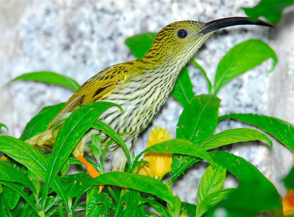 Streaked Spiderhunter (Arachnothera magna)